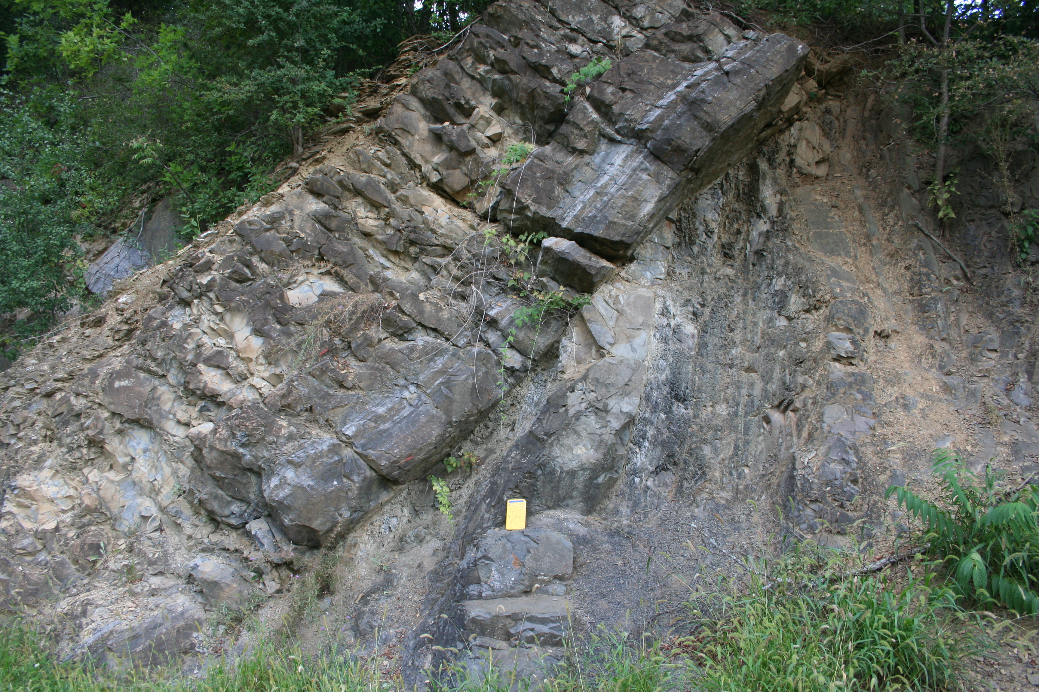 The "Taconic Unconformity" near Catskill, NY. This angular unconformity separates the the Austin Glen Formation (Ordovician) from the overlying Rondout Formation (Silurian) and Manlius Formation (Devonian).